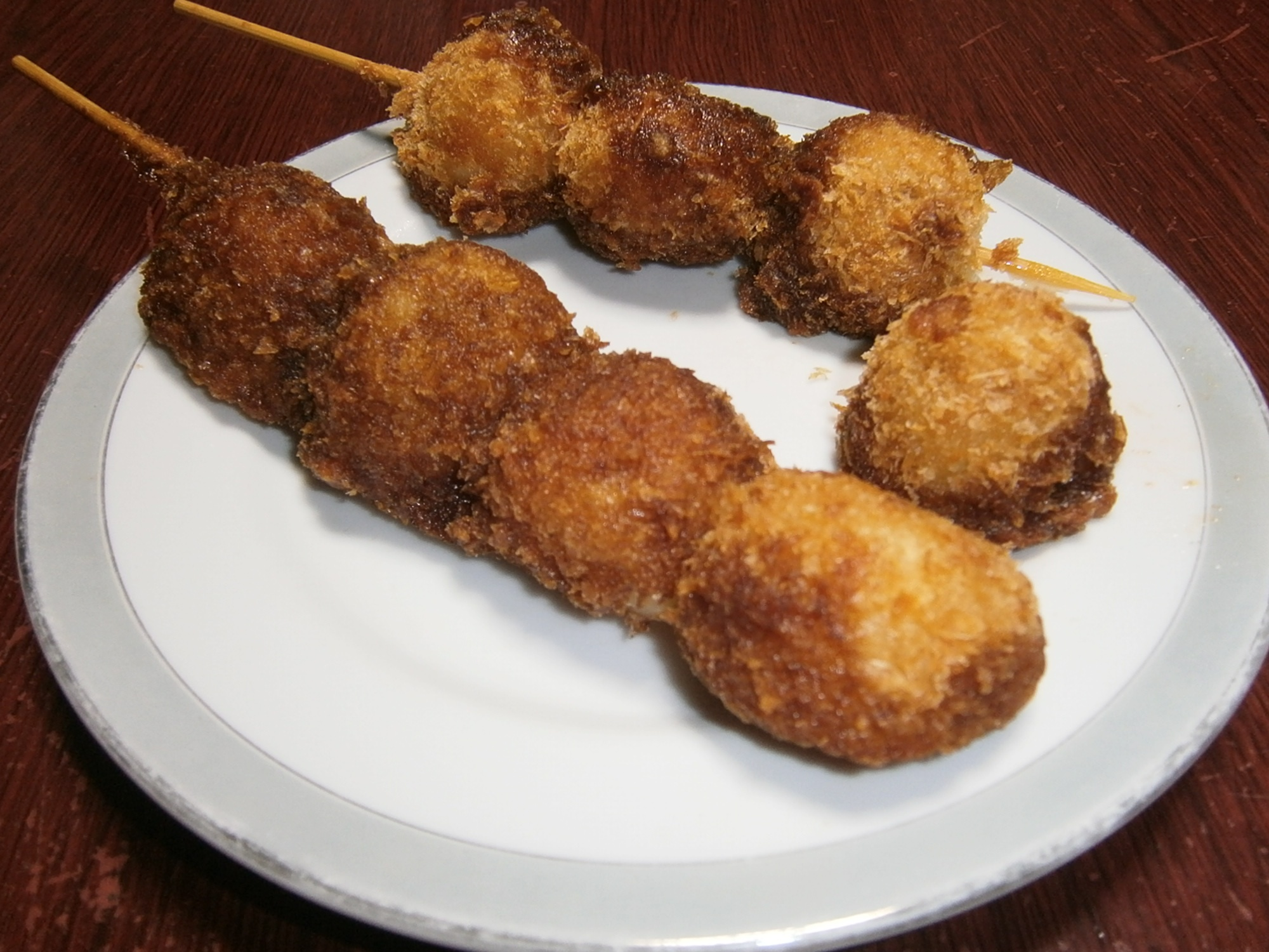 Imo-fry,That is potate deep-fried in panko breadcrumbs.